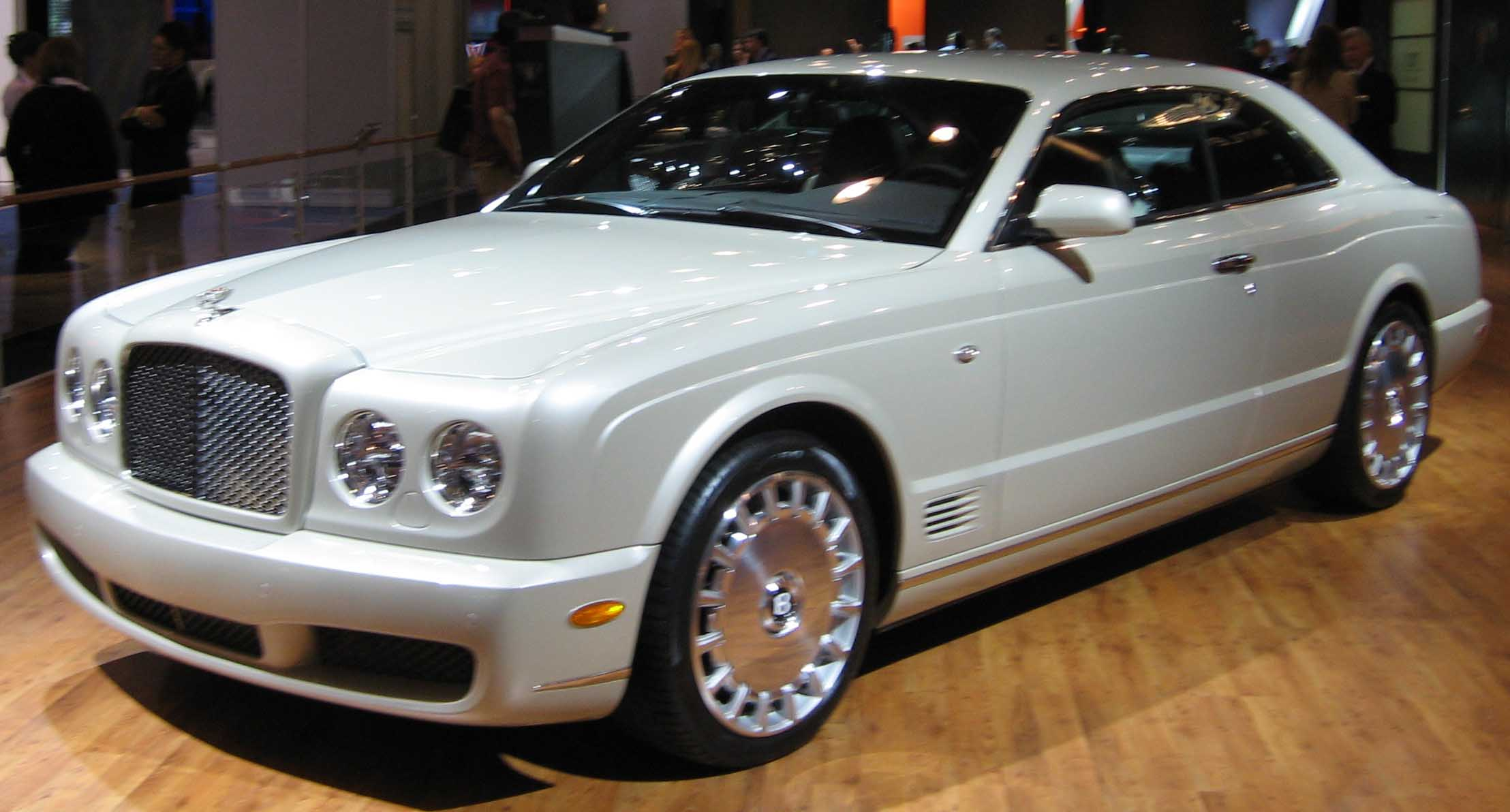 2008 Bentley Brooklands photographed at the 2008 New York Auto Show.